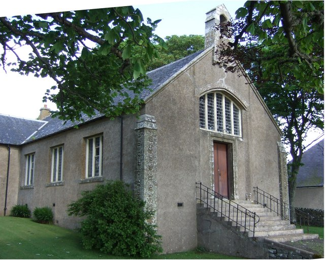 Latheron Church By the A9.